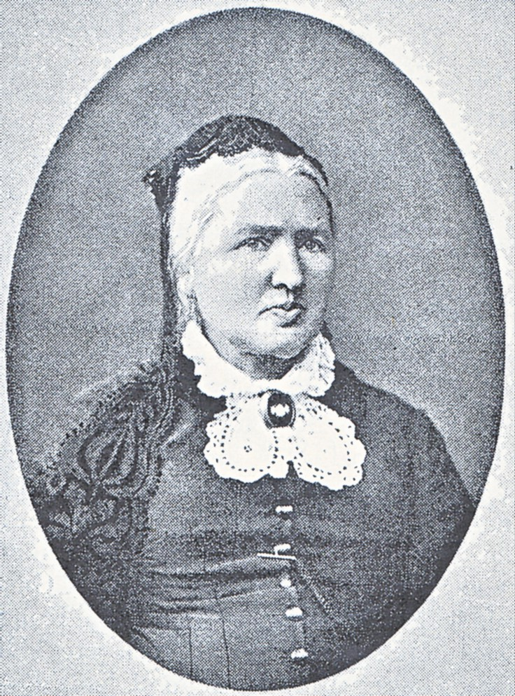 Portrait of Minna Wetlesen. Author unknown, probably died more than 70 years ago. . Norsk (bokmål): Portrett av husholdningslærerinnen Minna Wetlesen. Fra Skilling-Magazin, 25. april 1891. Ukjent kunstner, trolig død for mer enn 70 år siden.